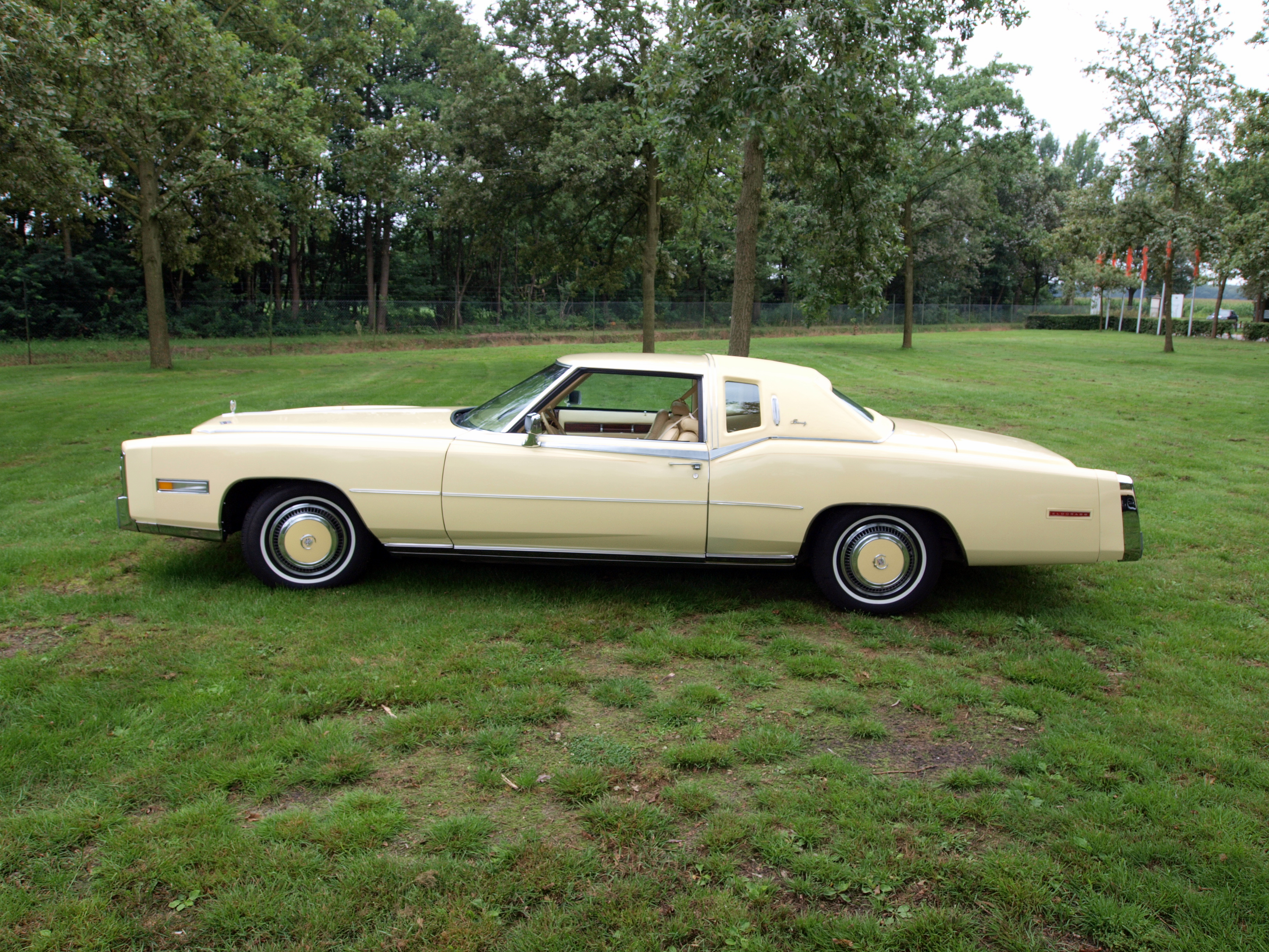 Photographed at the 2010 Autotron Classic car meeting, Rosmalen, The Netherlands. OLYMPUS DIGITAL CAMERA